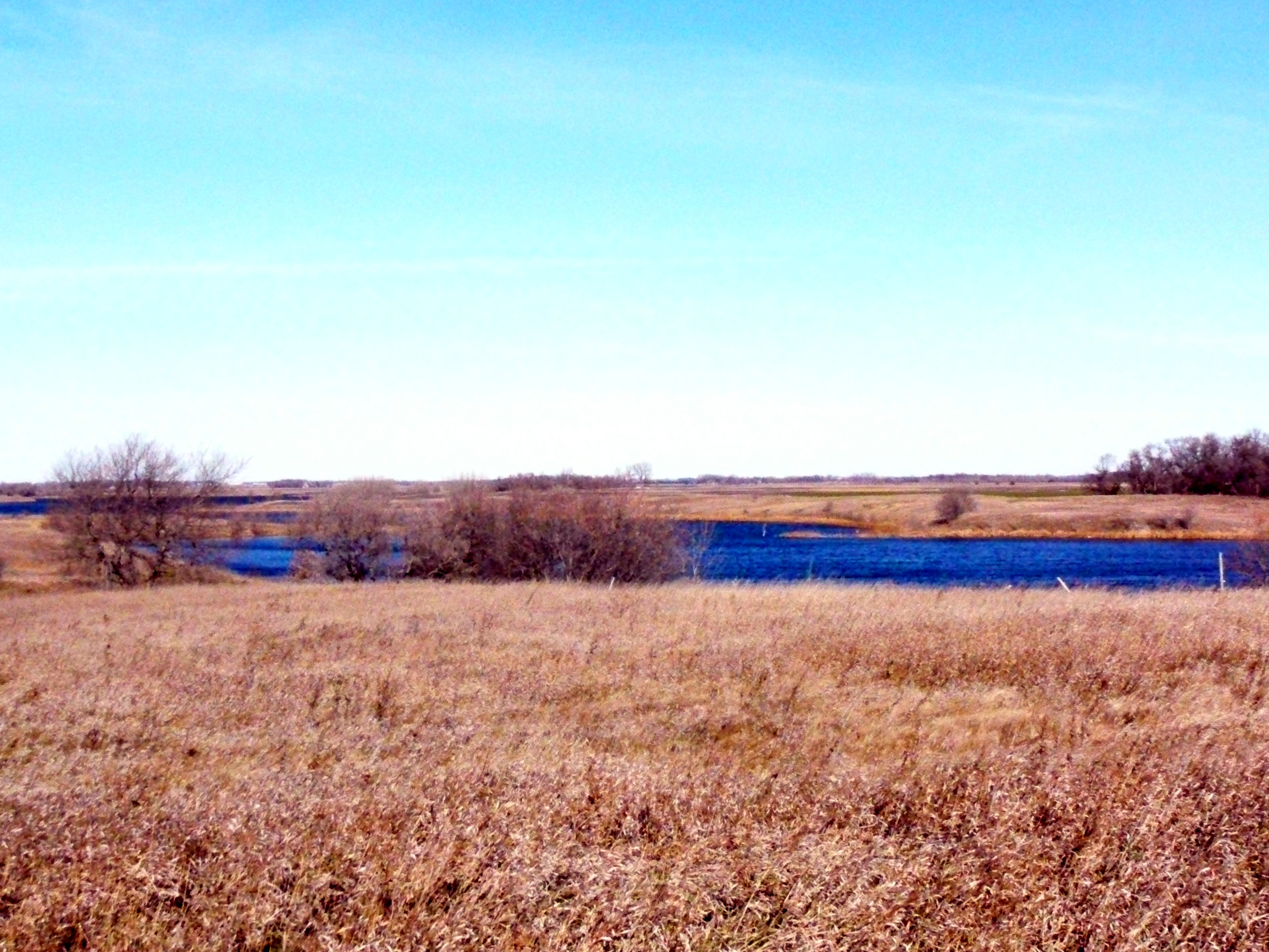 Large wetland surrounded by fields and a few shrubs.